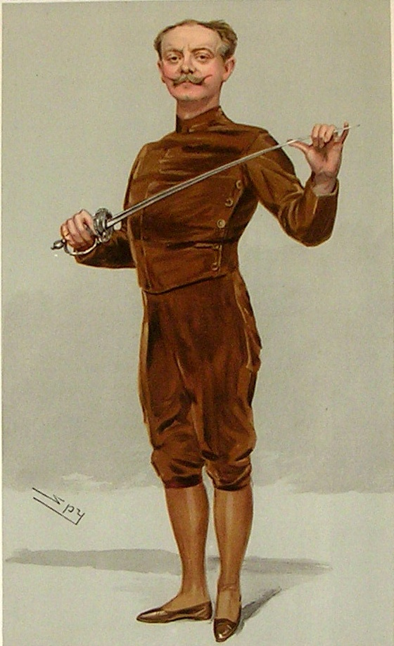 Caricature of Egerton Castle. Men of the Day No.0954. Caption reads: "He insists that his pen is mightier than his sword".